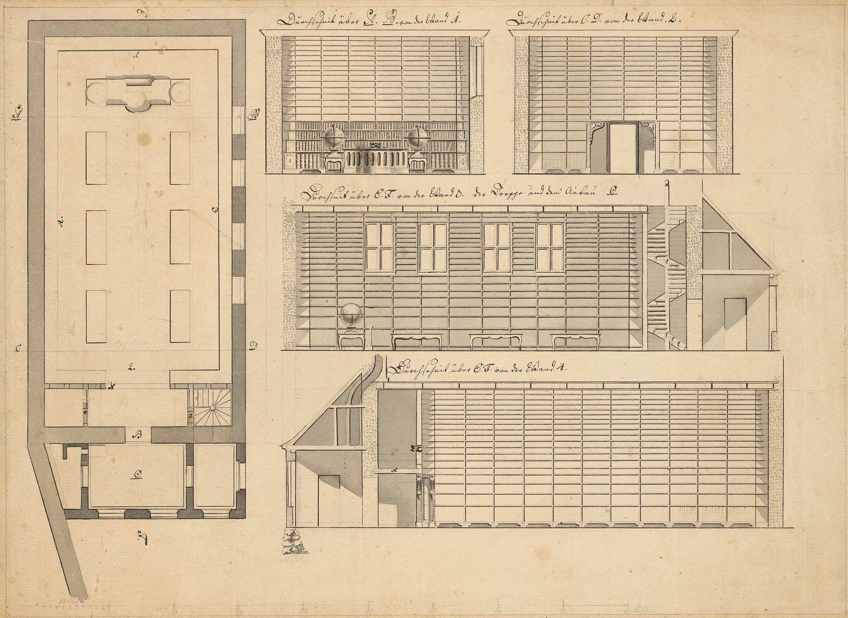 Bützow: Krummes Haus: Photo of the historical reconstruction plan (drawing) for the Krummes Haus as library 1769